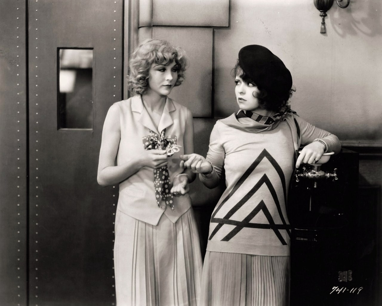 Joyce Compton (left) and Clara Bow in The Wild Party (1929) - cropped screenshot